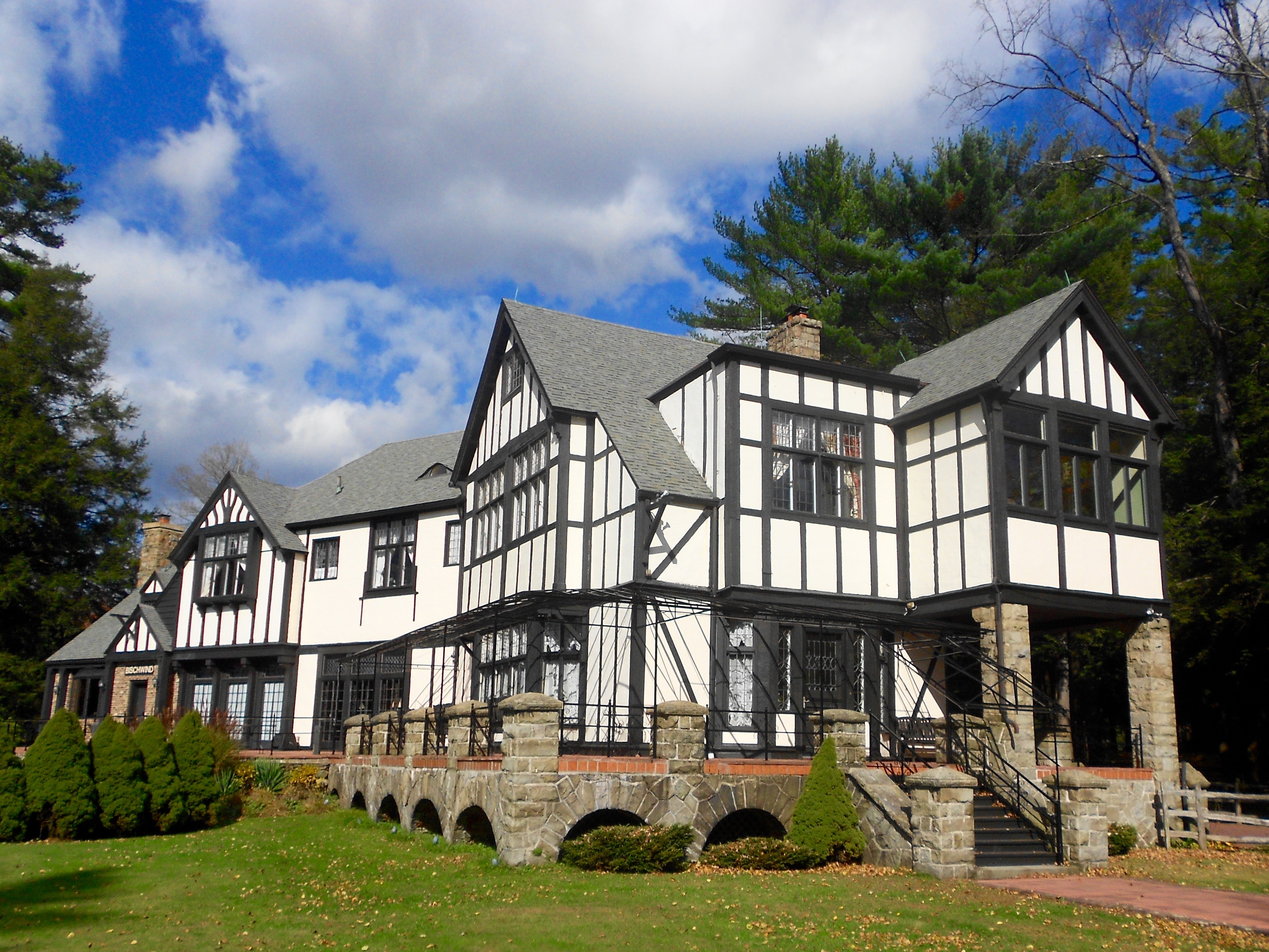 "Bishwind" a Bed & Breakfast in Bear Creek Village (a NRHP historic district) in Buck Township, Pennsylvania